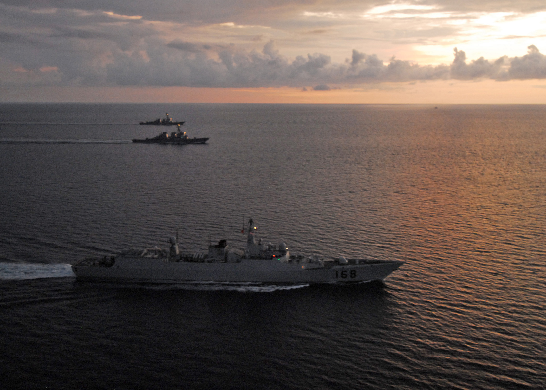 PACIFIC OCEAN (Aug. 19, 2009) The guided-missile destroyers USS Fitzgerald (DDG 62) and USS McCampbell (DDG 85) maneuver with the Chinese People's Liberation Army Navy (PLAN) destroyer Guangzhou off the coast of North Sulawesi, Indonesia, following an international fleet review that commemorated the 64th anniversary of Indonesian independence. Fitzgerald and McCampbell are part of Destroyer Squadron 15 and the USS George Washington Carrier Strike Group underway supporting security and stability in the western Pacific Ocean. (U.S. Navy photo by Mass Communication Specialist 3rd Class Ian Schoeneberg/Released)